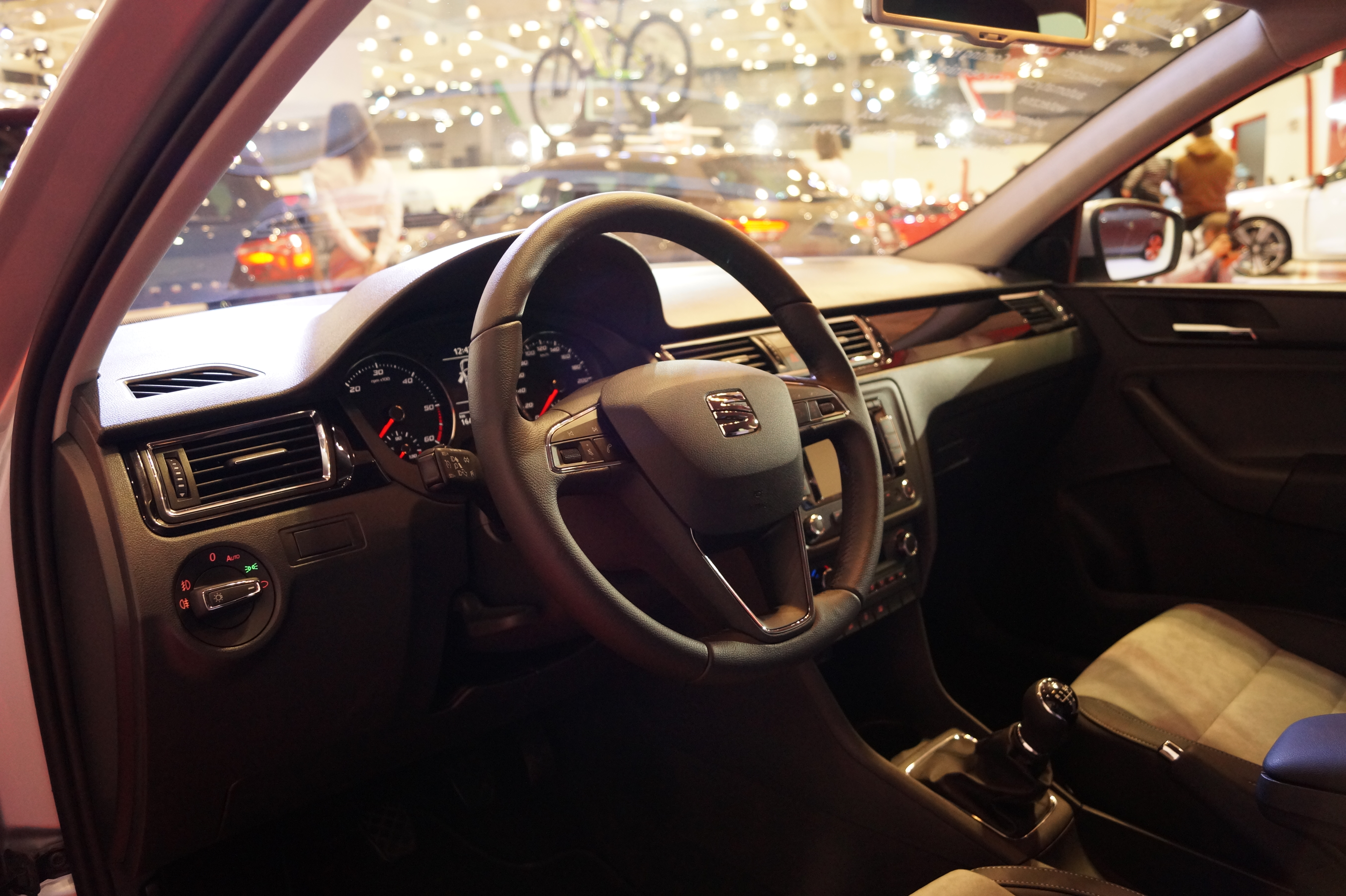 The making of this document was supported by Wikimedia Polska Association, within Wikigrant no. WG 2015-19. English | polski | +/− Wnętrze SEATa Toledo na Motor Show Poznań 2015